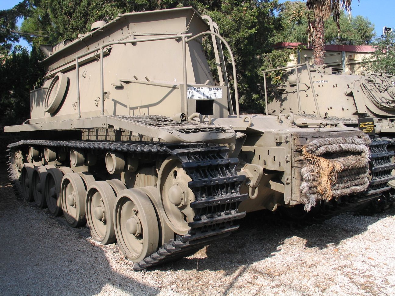 Description: Centurion BARV (Beach Armored Recovery Vehicle) in Batey ha-Osef museum, Tel Aviv, Israel. 2005. Source: Photo by me, User:Bukvoed.